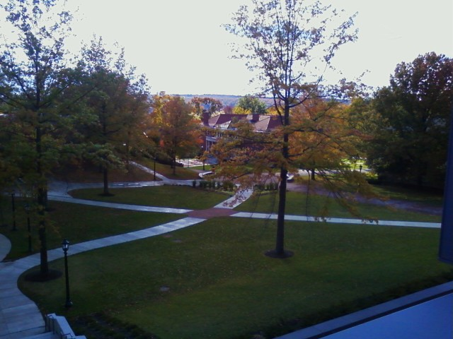 A view of the "Gator Quad" from the roof pf the Vukovitch Center for Communication Arts.